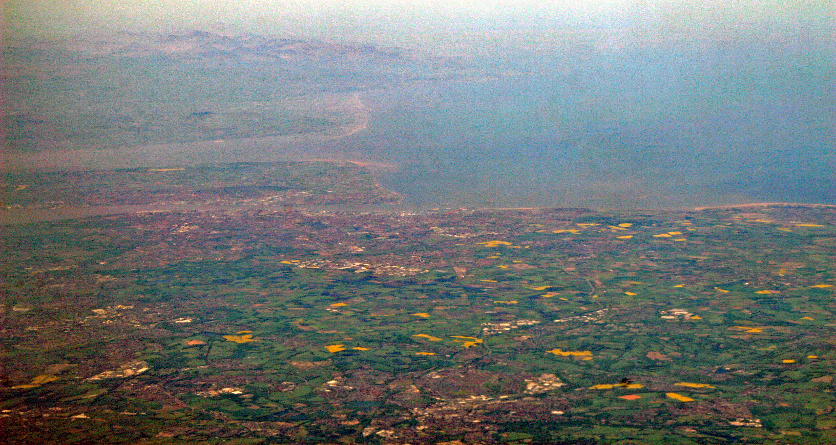 An aerial photograph of Merseyside in North West England. Off in the distance is Liverpool and beyond that is the Wirral. Further still is Wales and the Welsh mountains. In the foreground is part of West Lancashire.